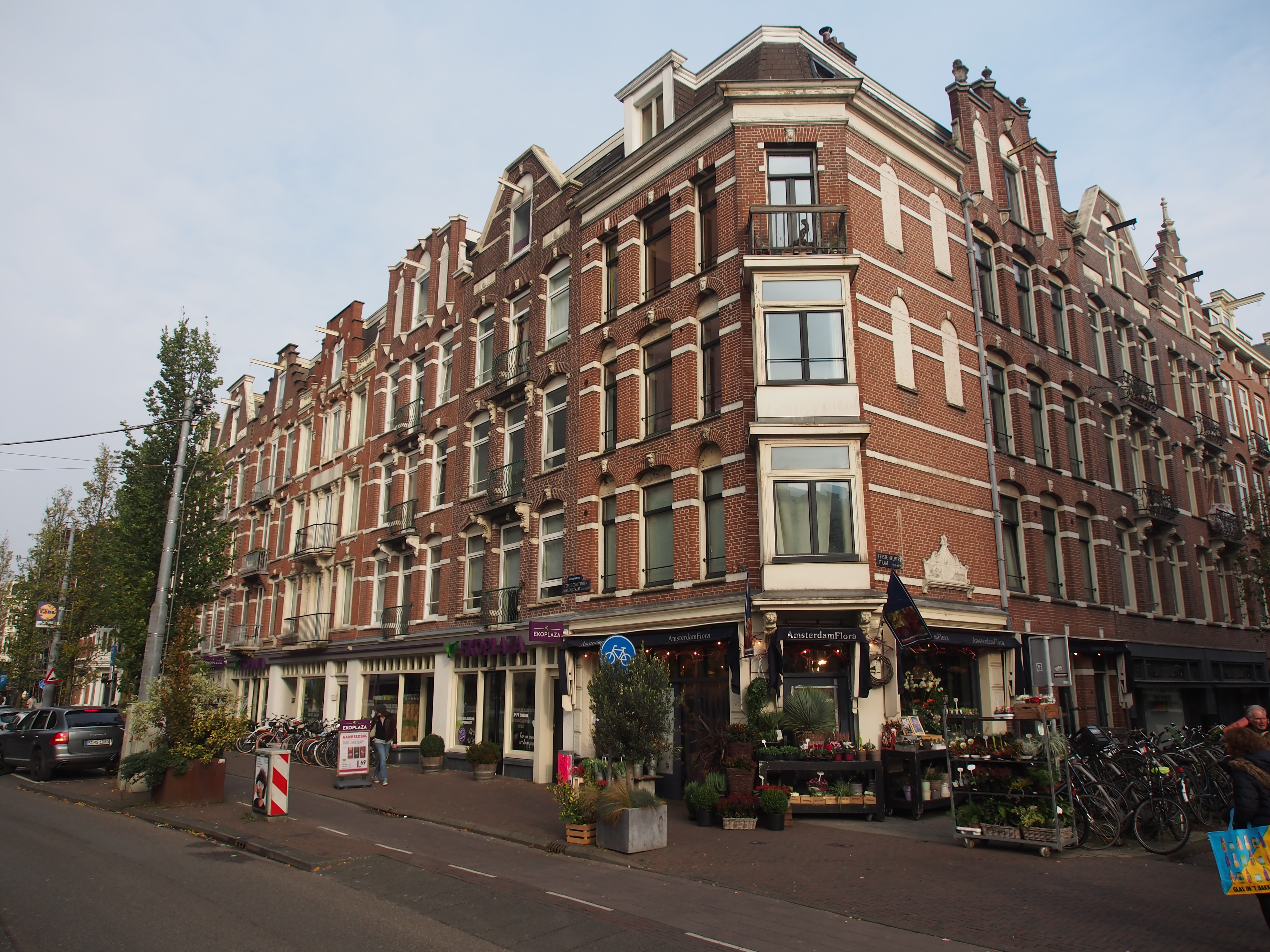 Photographed at Amsterdam.